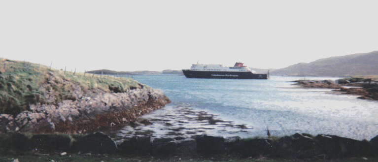 Cearsabhagh is a bay in Lochmaddy, or Loch na Madadh, on the east coast of North Uist (Uibhist a Tuath), Outer Hebrides. Loch na Madadh is the harbour which connects the island with the Inner Hebrides by dint of ferry lines. Here, a ferry is departing from the island. NOTE: usually spelled Cearsabhagh.